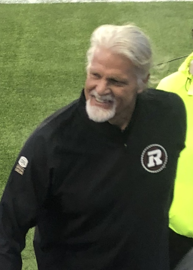 Mark Nelson, Linebackers Coach for the Ottawa Redblacks.